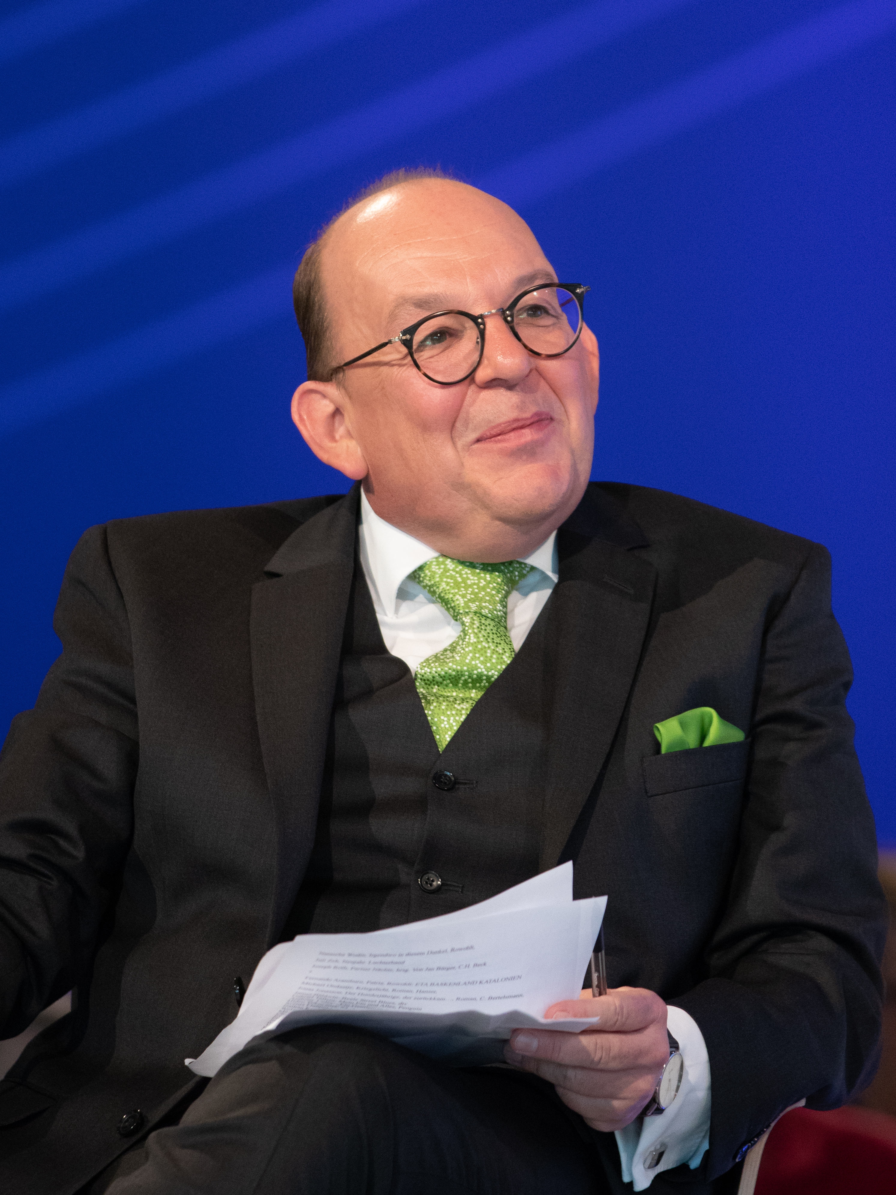 Television presenter Denis Scheck at the Frankfurt Book Fair 2018.